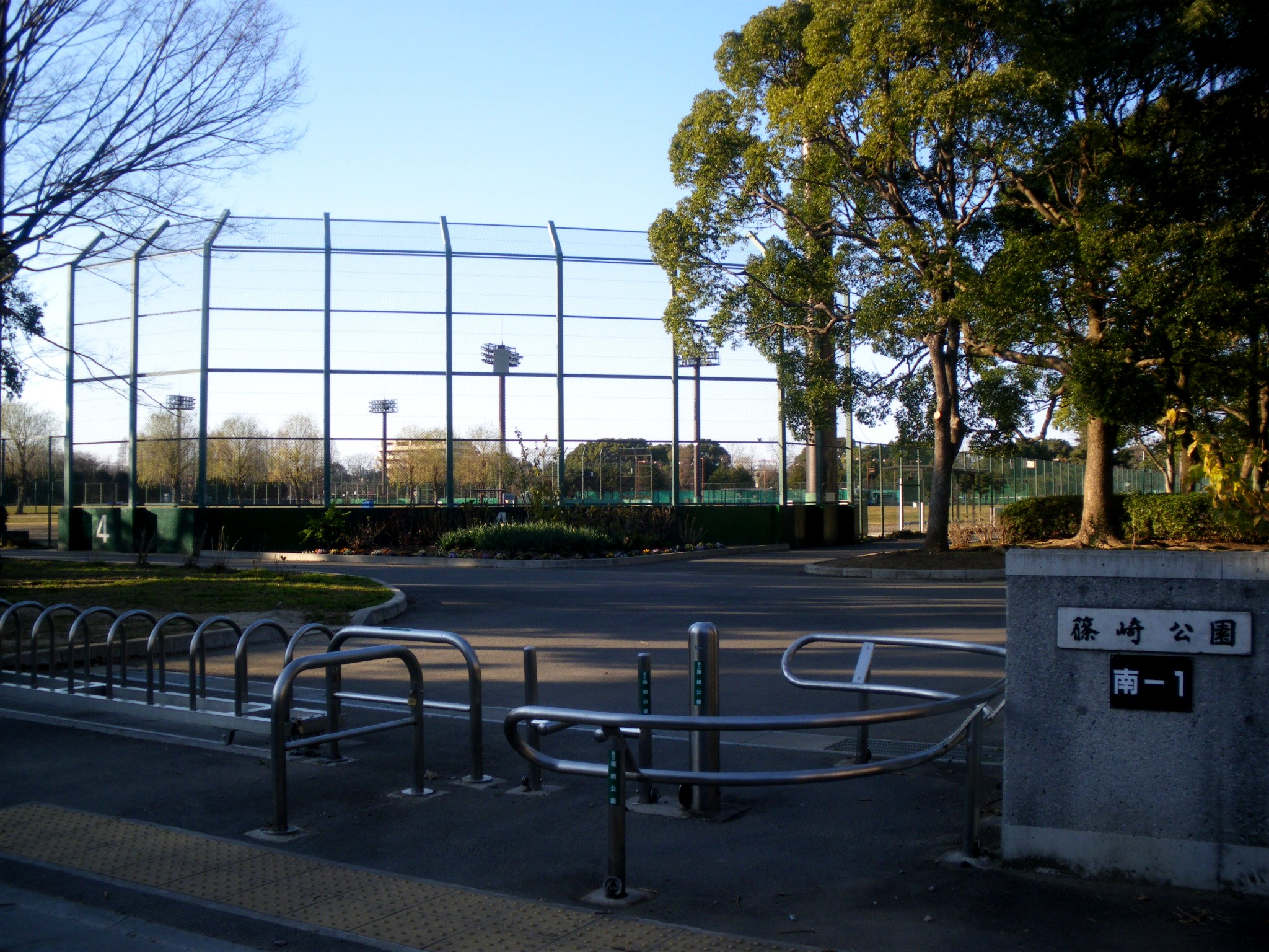 Entrance of Shinozaki Park Area A in Edogawa Ward, Tokyo, Japan